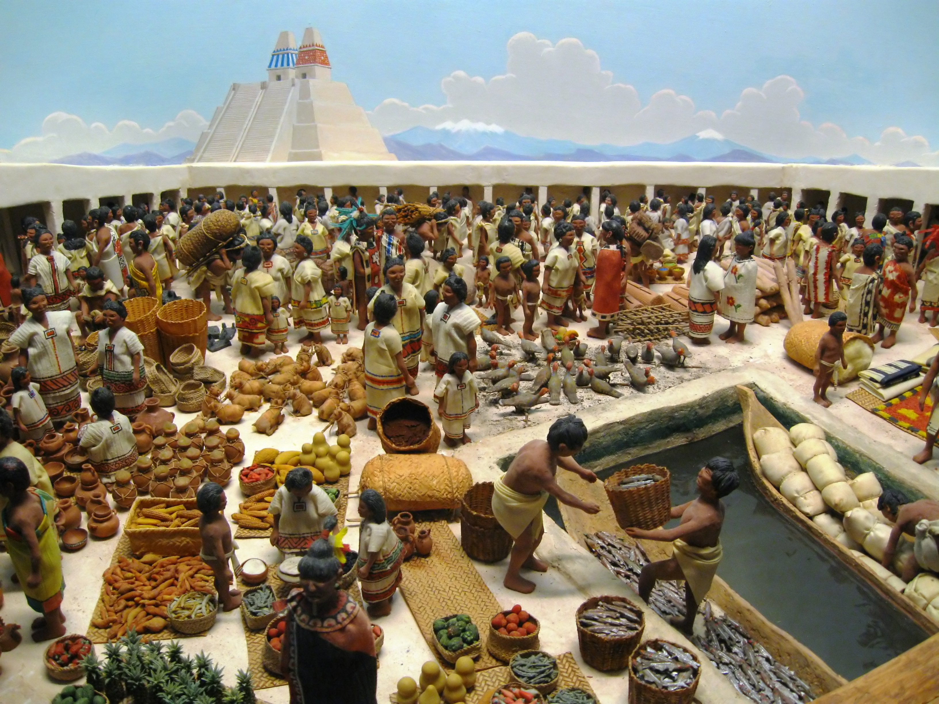 Tlatelolco Marketplace as depicted at Field Museum of Natural History, Chicago. The largest Aztec market was located in Tenochtitlan's neighbouring town, Tlatelolco.